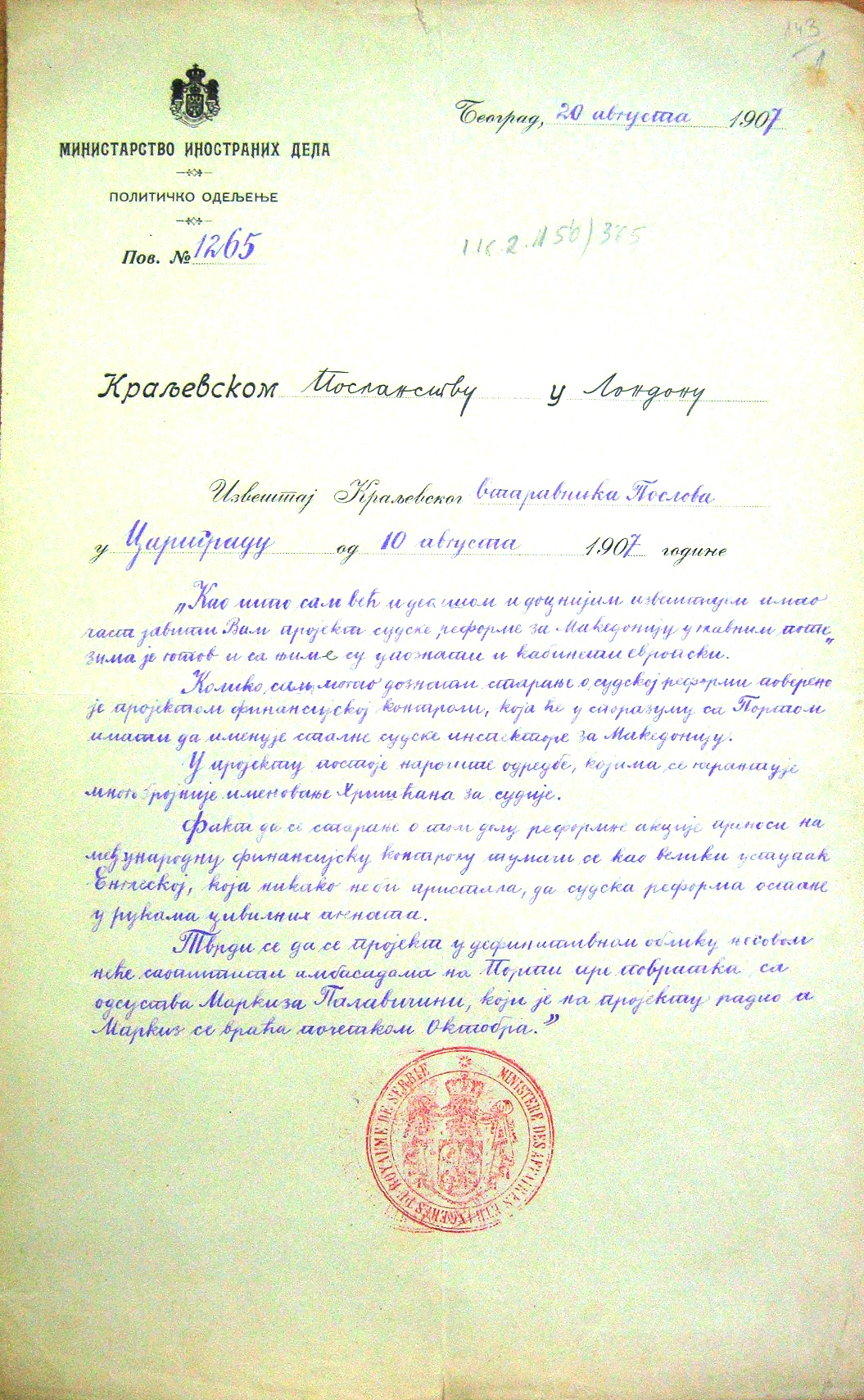 Serbian project report on court reforms in Macedonia, given to the European cabinets. (20 August 1907) This media file is produced by Wikipedian in Residence in Category:Wikipedian in Residence at DARM in 2016.